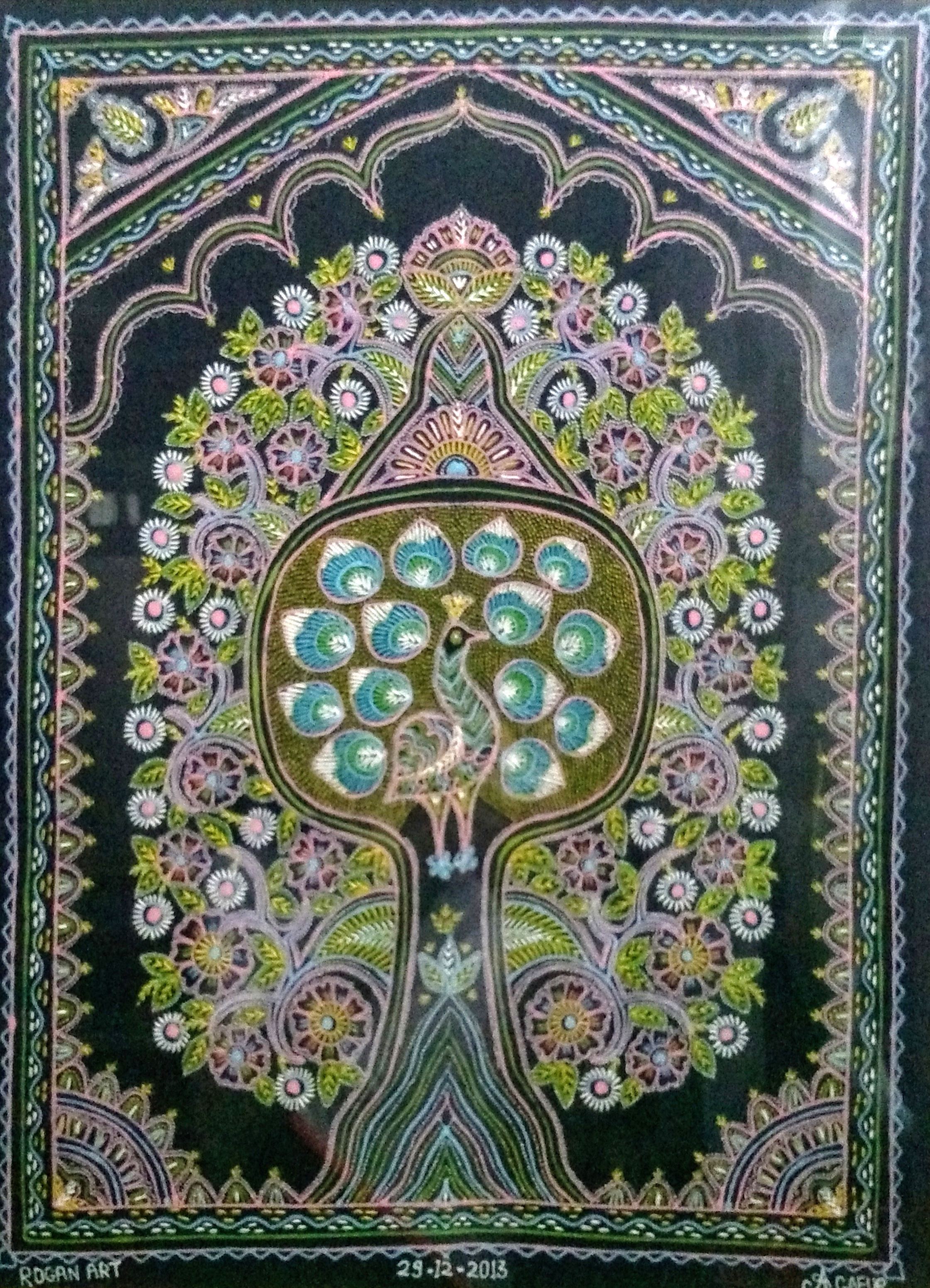 Rogan art with Tree of Life motif, by Abdul Gafur Khatri from Kutch, Gujrat, India